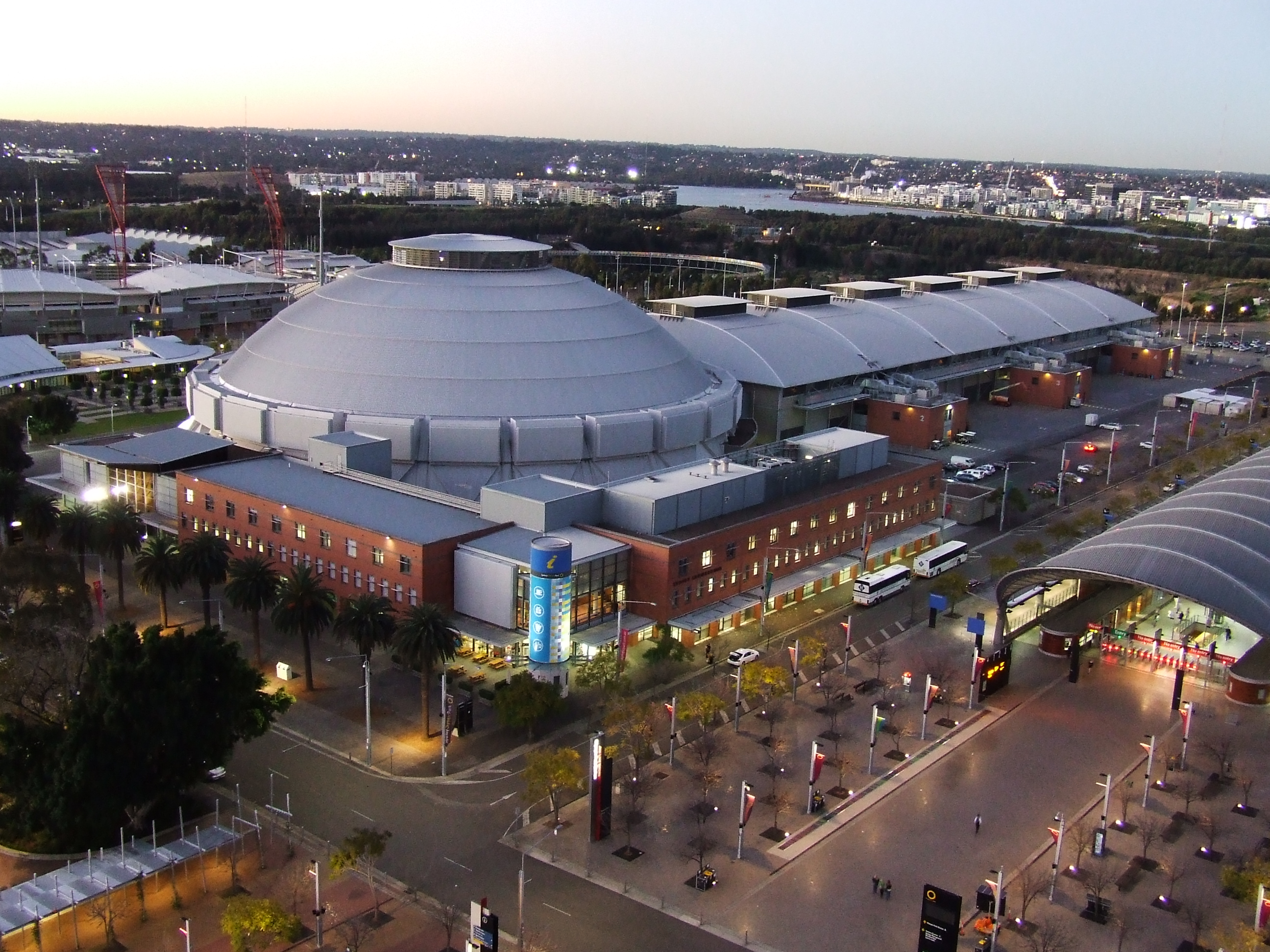 In the late afternoon, fading light, from the top of the Novotel at Sydney Olympic Park